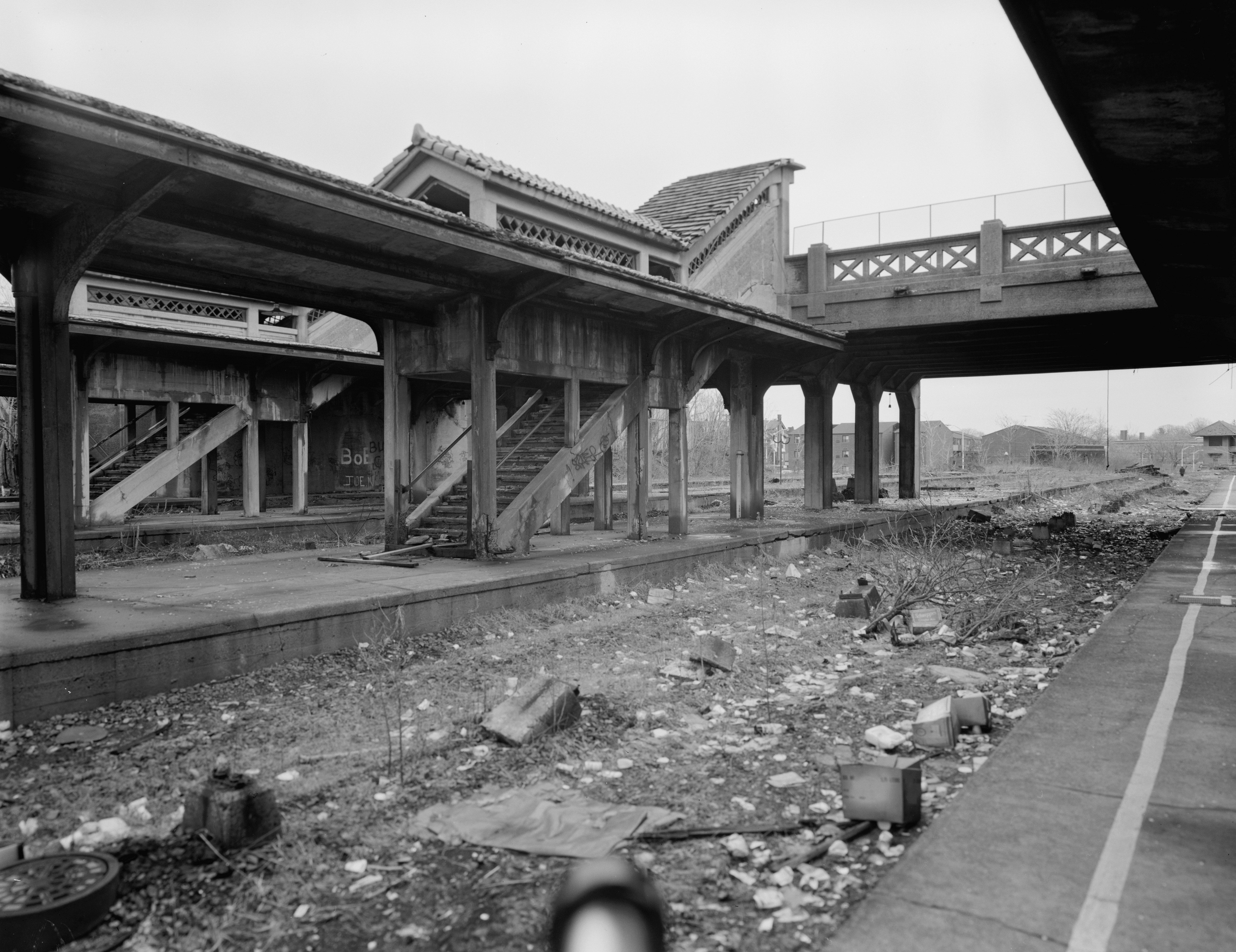 Enclosed pedestrian staircase, northeast view, with Grove Street Bridge in background